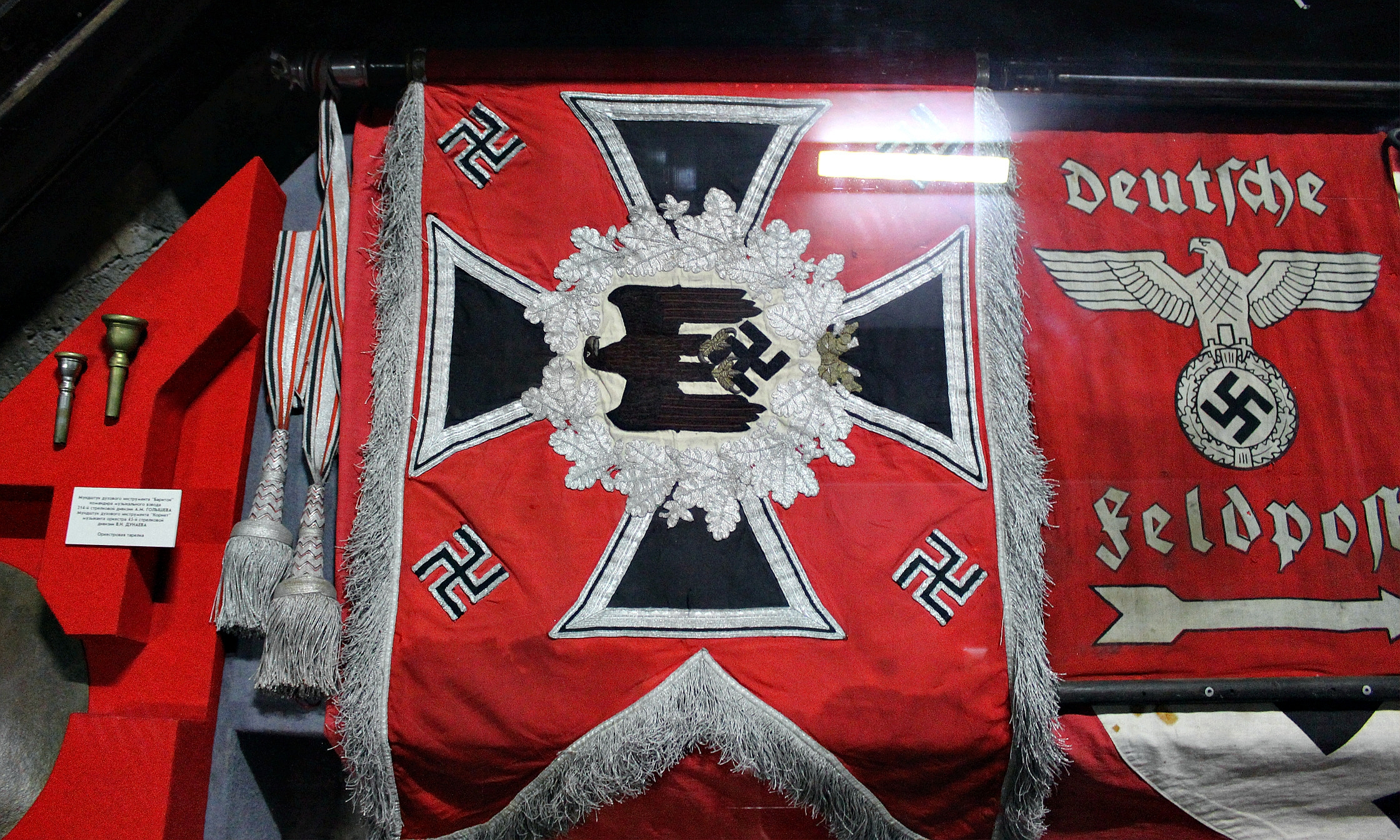 This was the flag of the Nazi Party (National Socialist German Workers Party) or NSDAP